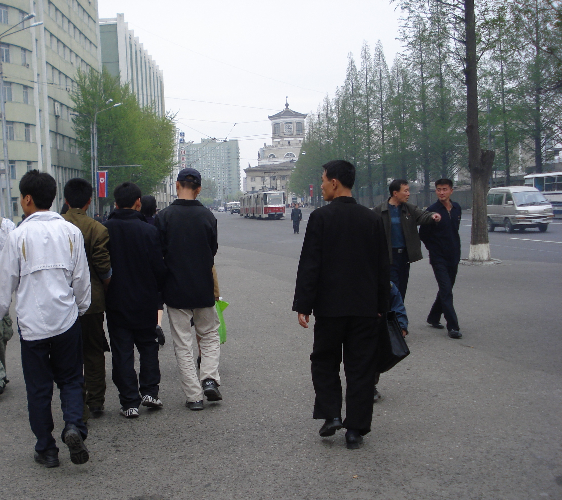 Korean youth on a Pyongyang street